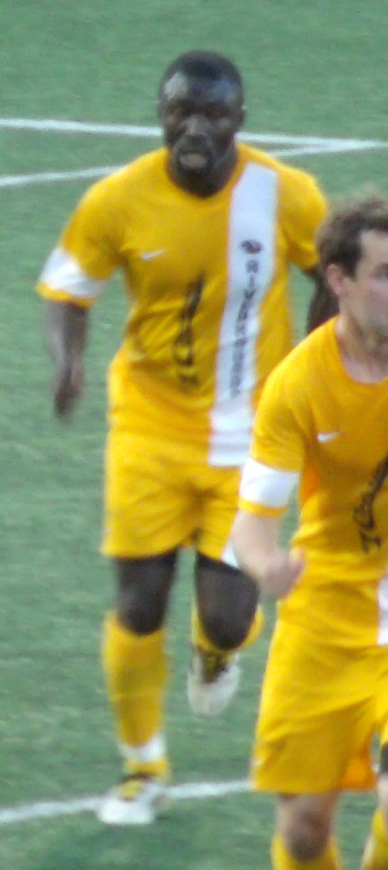 Pittsburgh Riverhounds vs. Wilmington Hammerheads 4/12/14